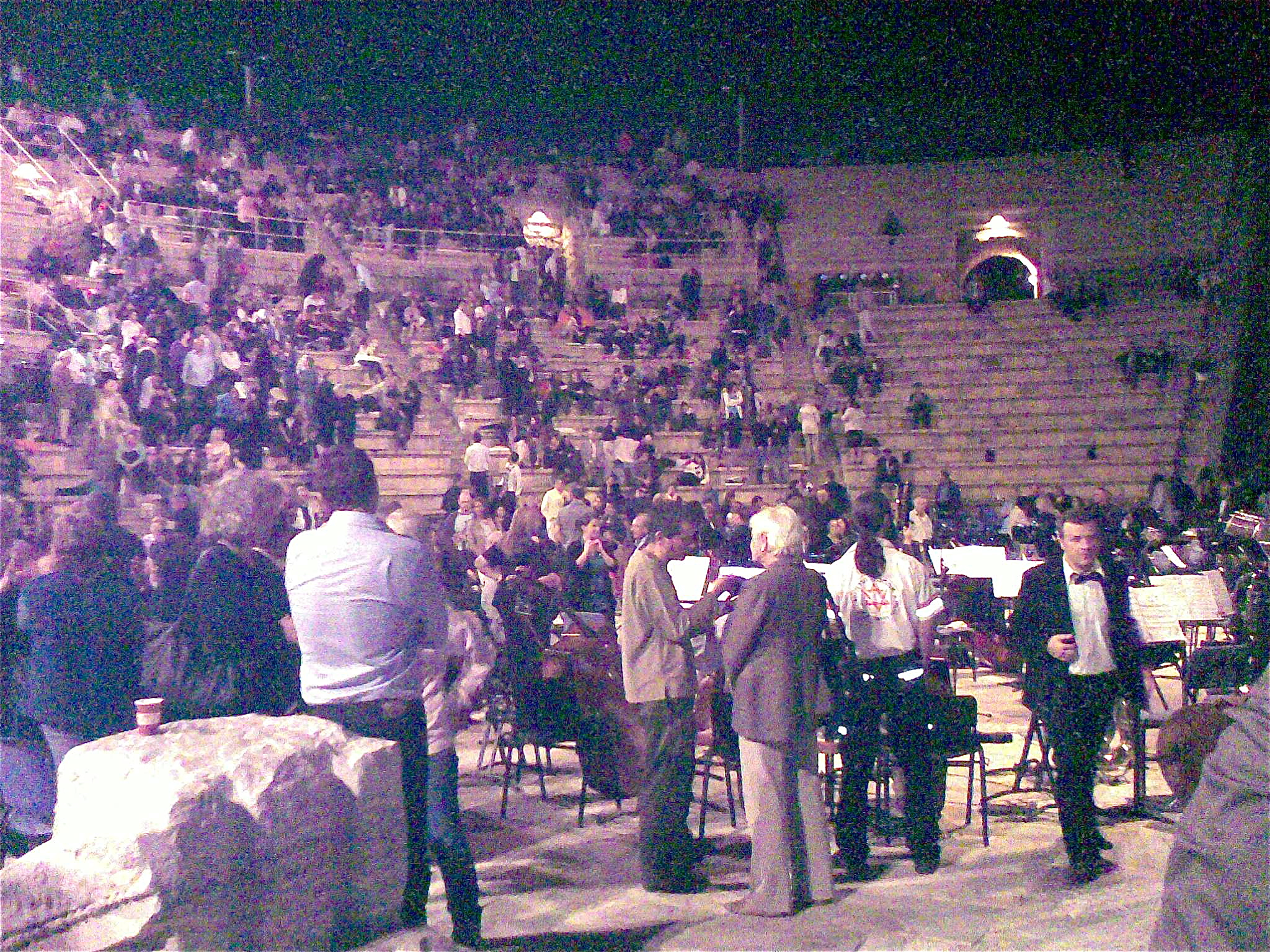 Caesarea Theater - Mariinsky Ballet Israeli Audience during one of Swan Lake's intermissions.